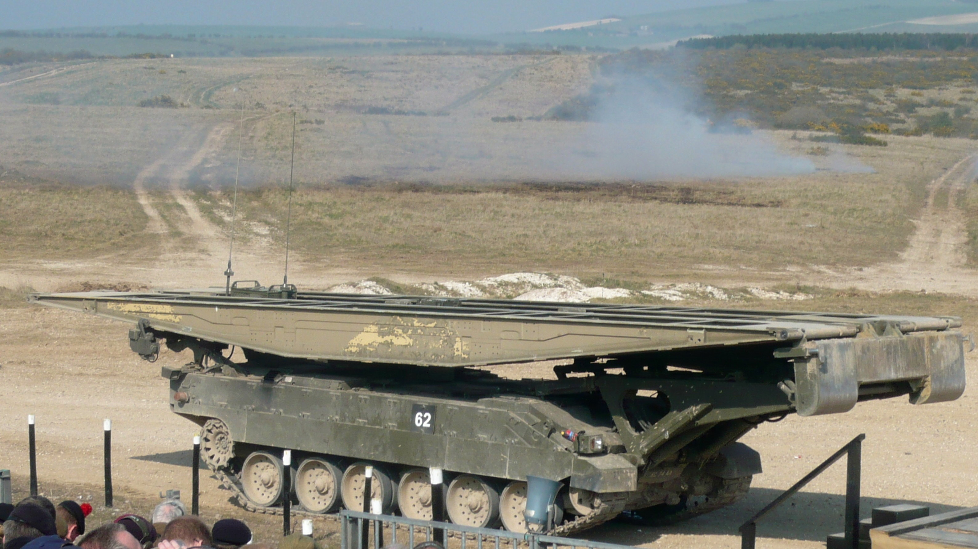 TITAN Armoured Vehicle Launcher Bridge with BR-90 No. 12 Bridge